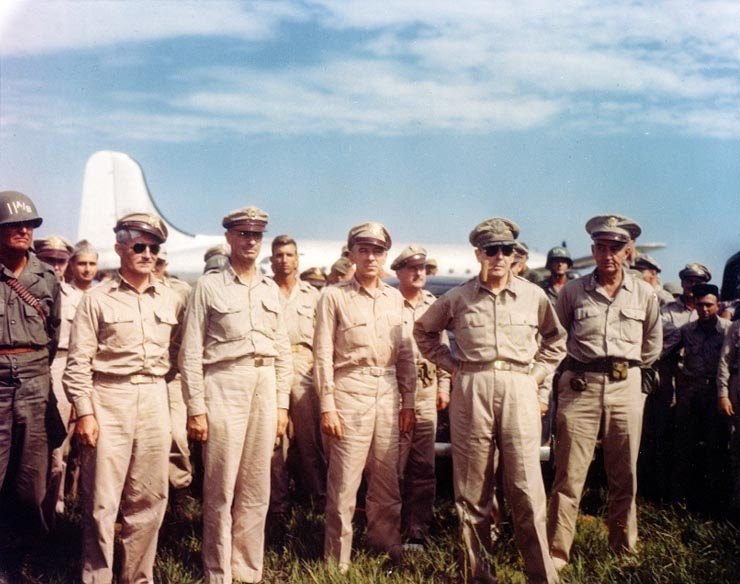 Photo #: USA C-1732 (Color) General of the Army Douglas MacArthur, U.S. Army (second from right) With other senior Army officers, upon his arrival at Atsugi airdrome, near Tokyo, Japan, 30 August 1945. Among those present are: Major General Joseph M. Swing, Commanding General, 11th Airborne Division, (left); Lieutenant General Richard K. Sutherland (3rd from right); General Robert L. Eichelberger (right). Aircraft in the background is a Douglas C-54. Photograph from the Army Signal Corps Collection in the U.S. National Archives.